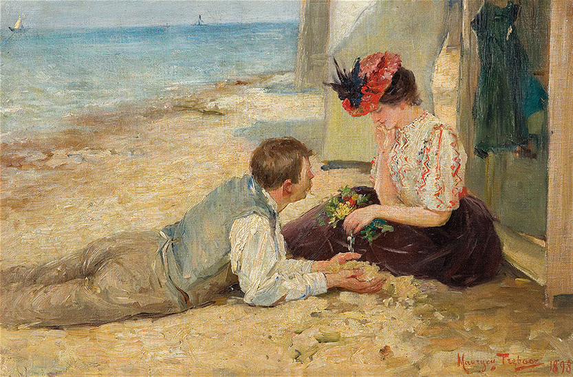 On the beach